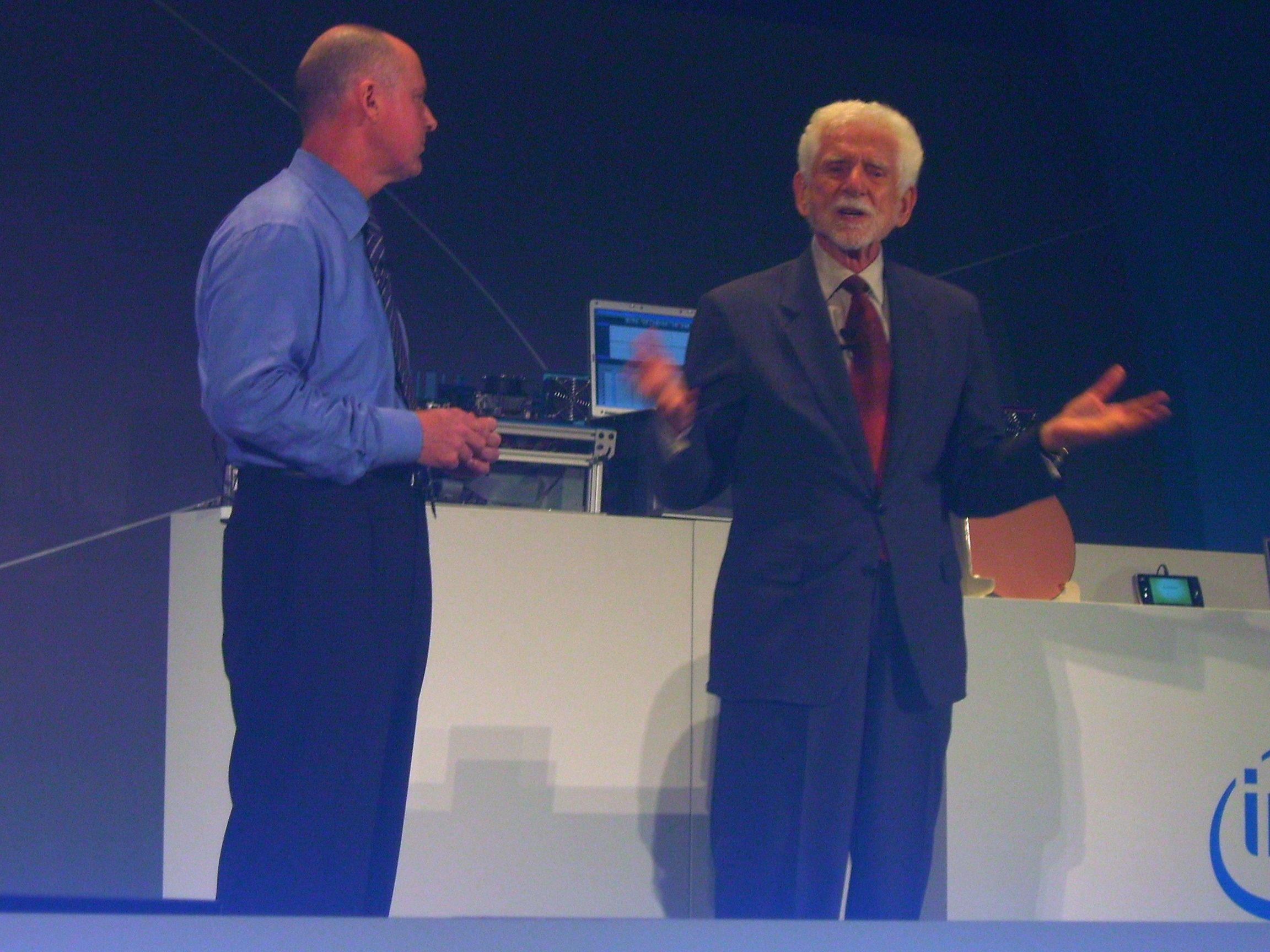 Sean Maloney (left) and Martin Cooper (right).